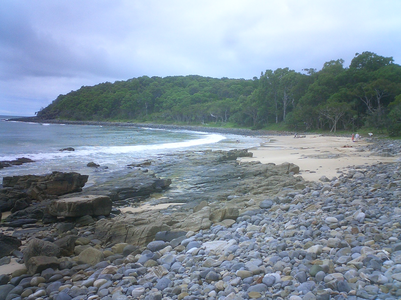 The beach along Noosa headlands, Queensland. Only accessible by foot. Photo by Raffi Kojian.